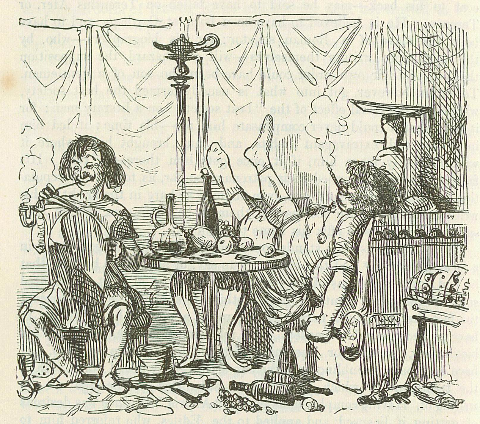 Image by John Leech, from: The Comic History of Rome by Gilbert Abbott à Beckett. Bradbury, Evans & Co, London, 1850s Terence reading his Play to Caecilius